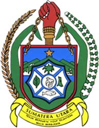 Coat of Arms of Indonesian province of North Sumatra.